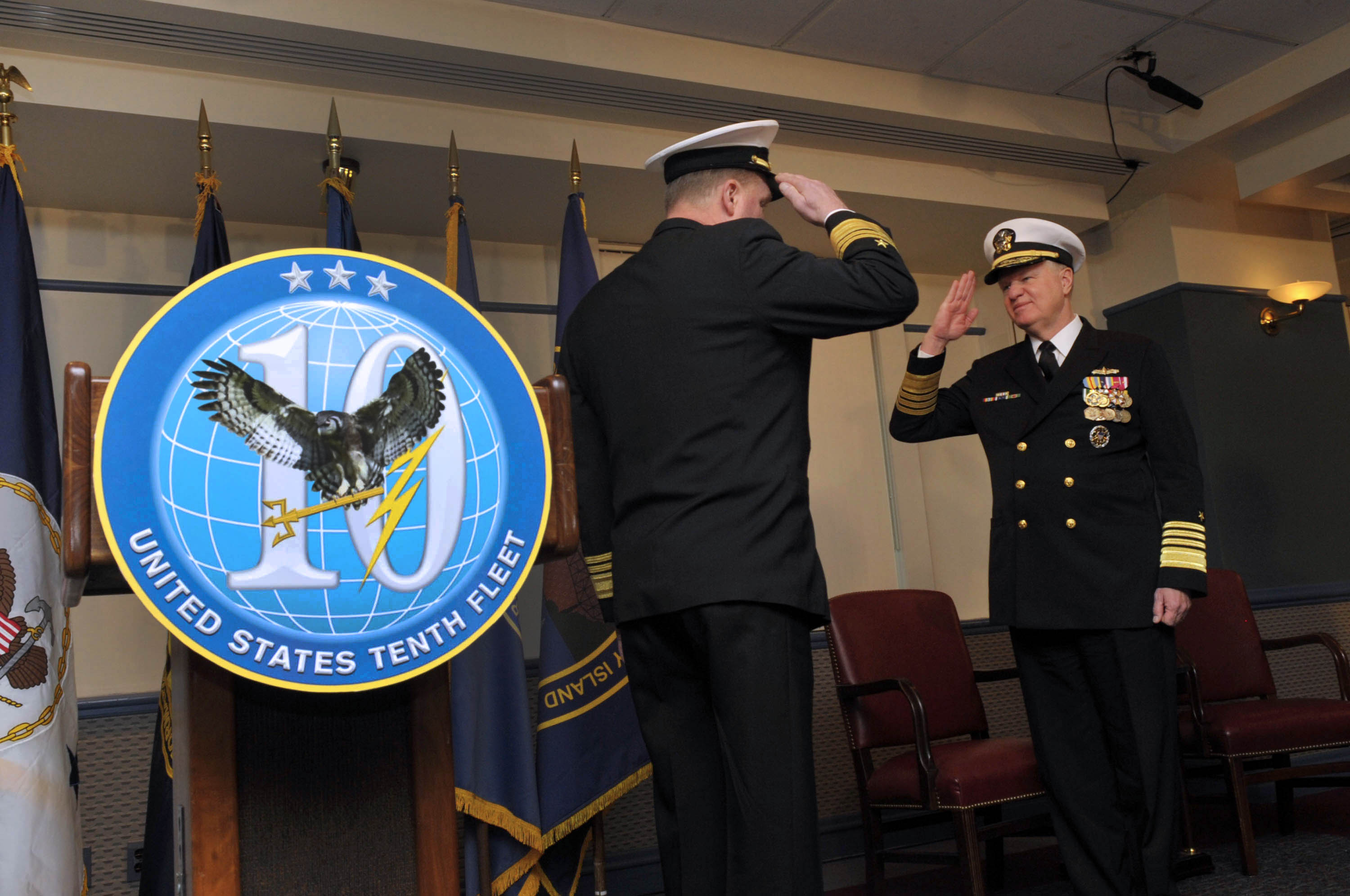 FT. MEADE, Md. (Jan. 29, 2010) Chief of Naval Operations (CNO) Adm. Gary Roughead salutes Vice Adm. Barry McCullough, commander of U.S. Fleet Cyber Command and U.S. 10th Fleet at the commissioning ceremony for U.S. Fleet Cyber Command at Ft. George G. Meade, Md. (U.S. Navy photo by Mass Communication Specialist 1st Class Tiffini Jones Vanderwyst/Released)